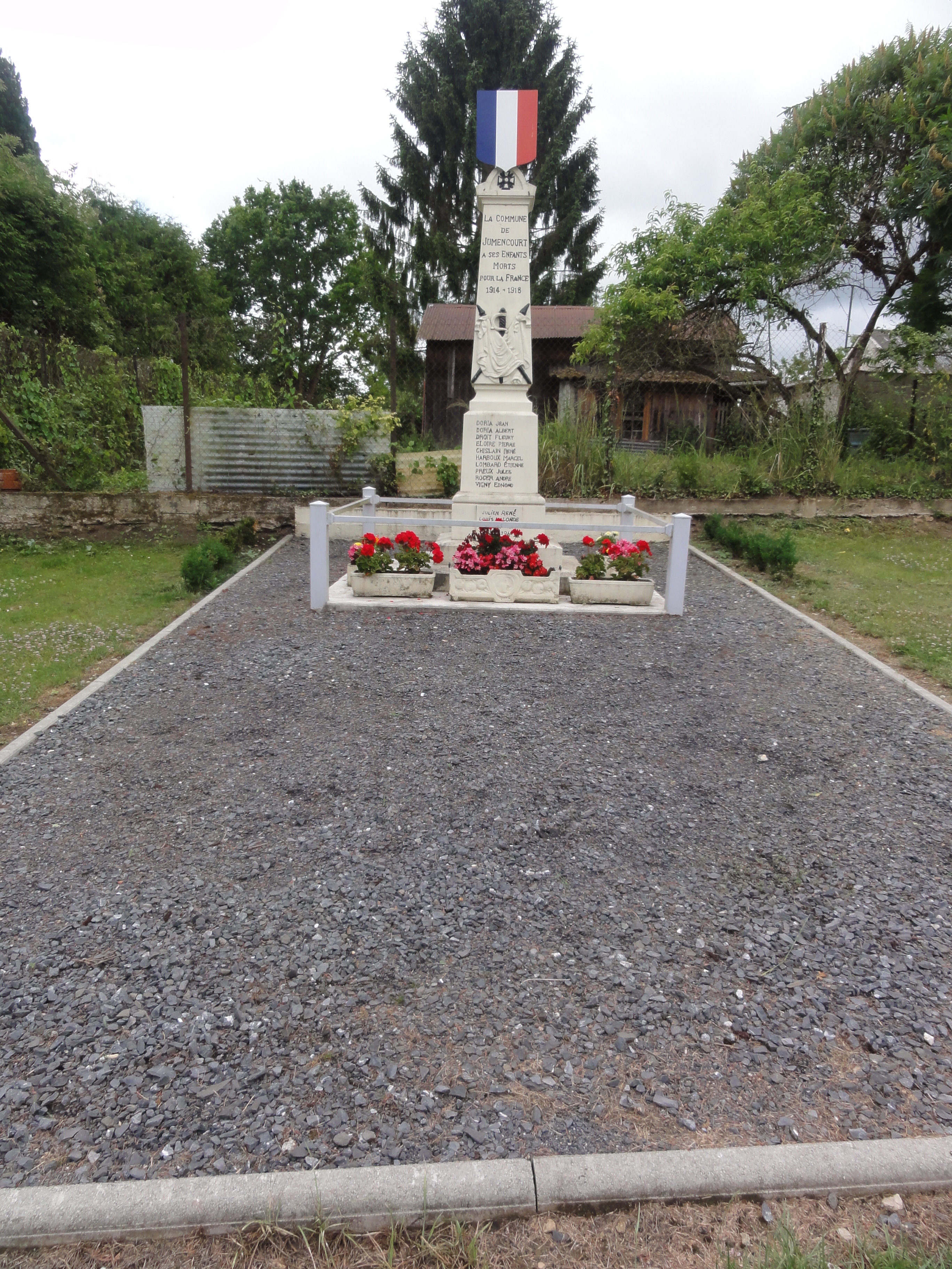 Jumencourt (Aisne) monument aux morts